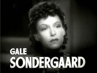 Cropped screenshot of Gale Sondergaard from the trailer for the film Dramatic School